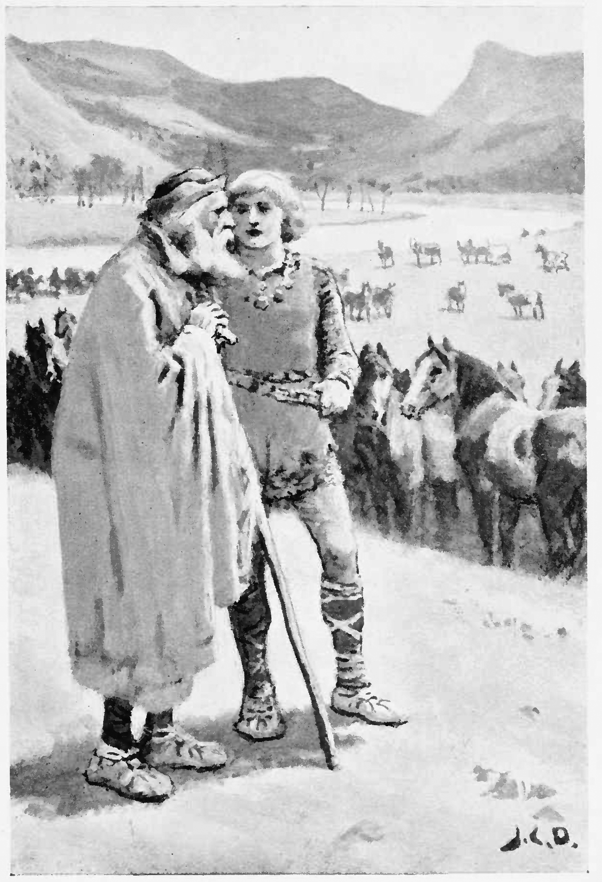 Captioned as "The Stranger advises Sigurd how to choose his Horse".